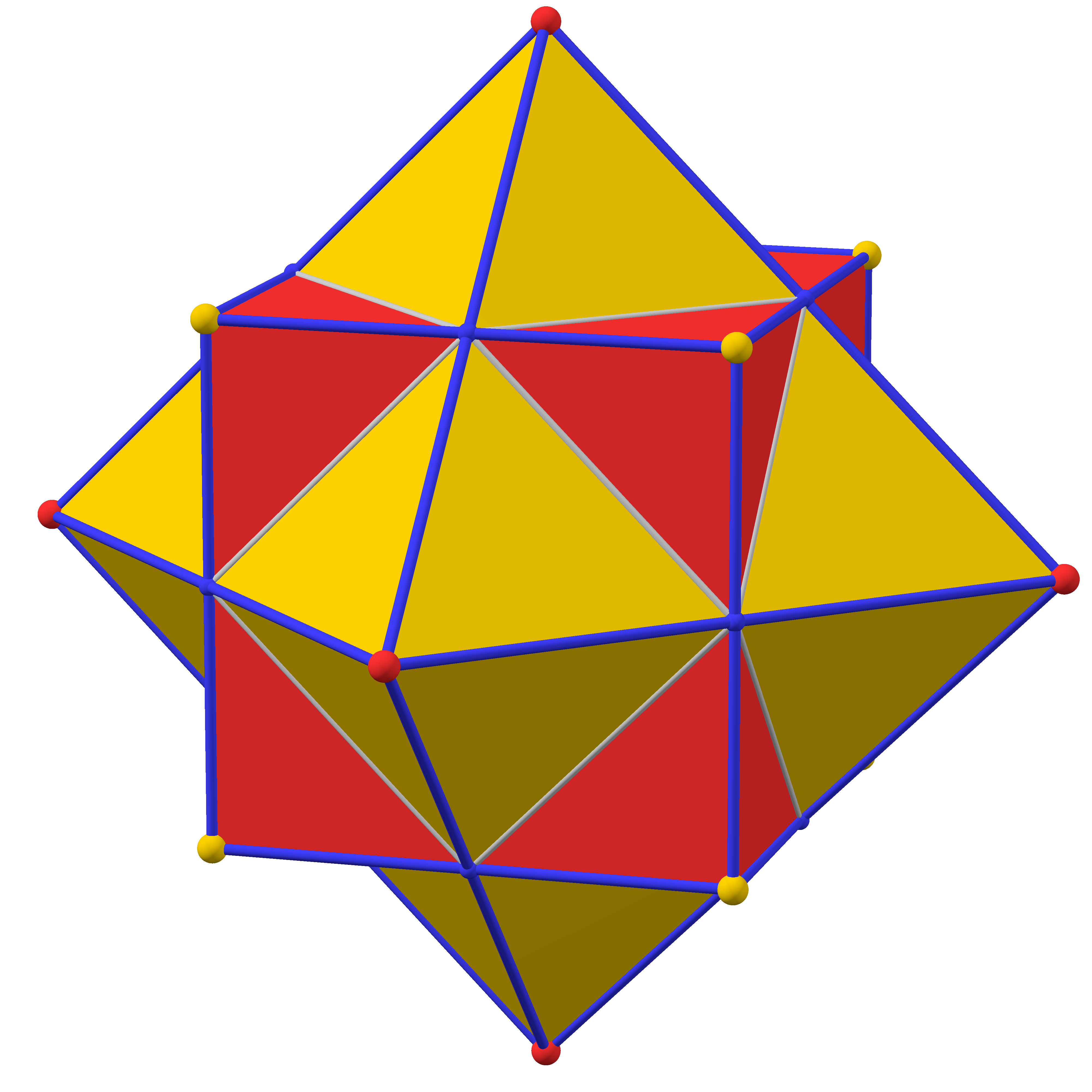 Image set Platonic, Archimedean and Catalan solids with direction colors Part of Polyhedra with direction colors (image set) This polyhedron has a form of octahedral symmetry. There are 12 blue elements. This set contains renderings of Platonic, Archimedean and Catalan solids. For most of them the sphere shown on the right is the polyhedrons midsphere. The geometric properties of these images have been calculated with Python, and they have been rendered with POV-Ray. The source code used can be found on GitHub. The POV-Ray sources are in this folder. This image was created with POV-Ray. This PNG graphic was created with Python. The images in this set have consistent sizes and angles. Please do not overwrite them. If this image has a margin, there is probably a variant without it — or it can be uploaded. (Filename with " max" at the end.)